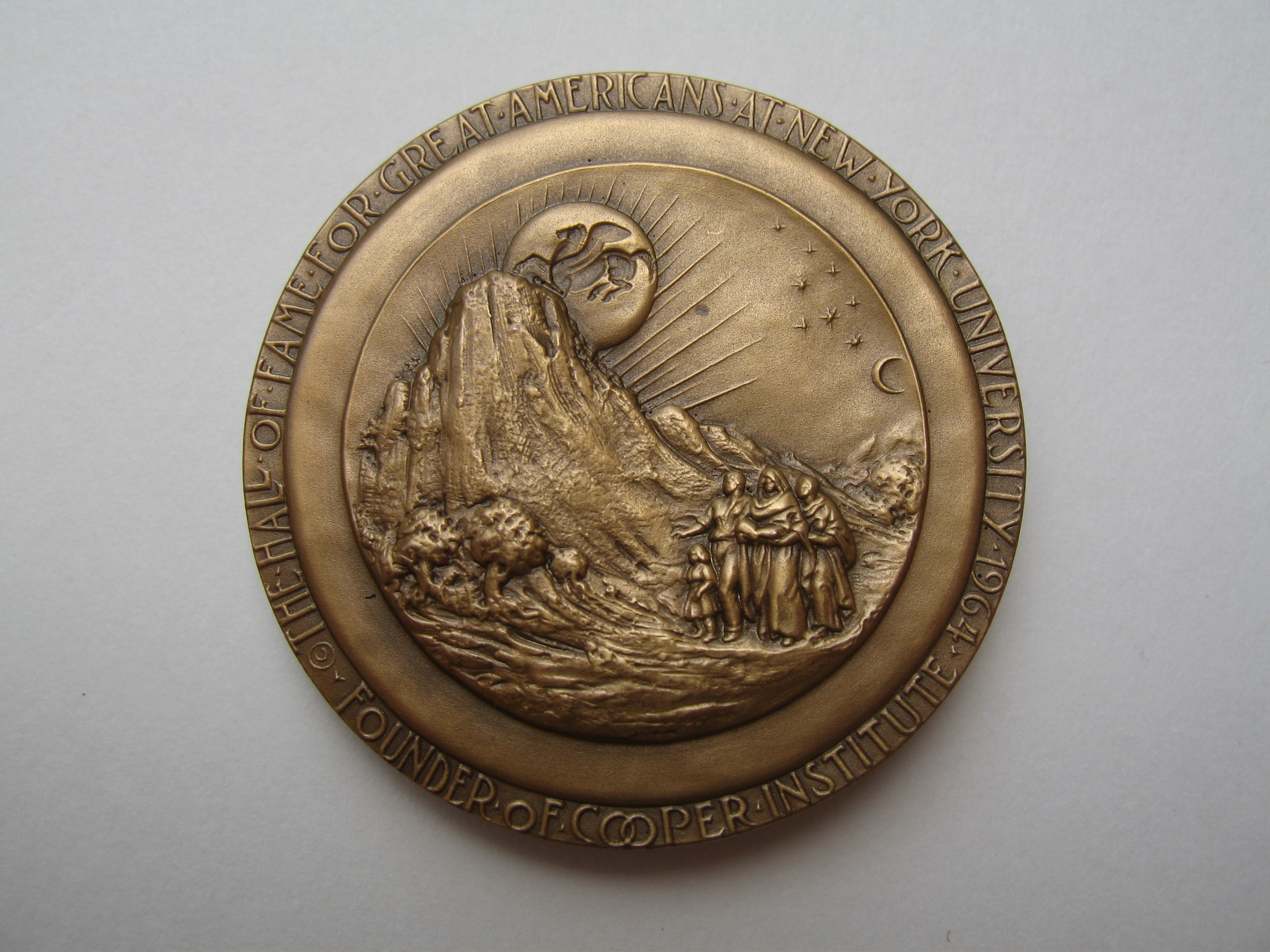 Reverse of the Cooper Medal from the Hall of Fame for Great Americans medal series produced by the Medallic Art Company. Anthony de Francisci designed this medal for the commeration of Peter Cooper.